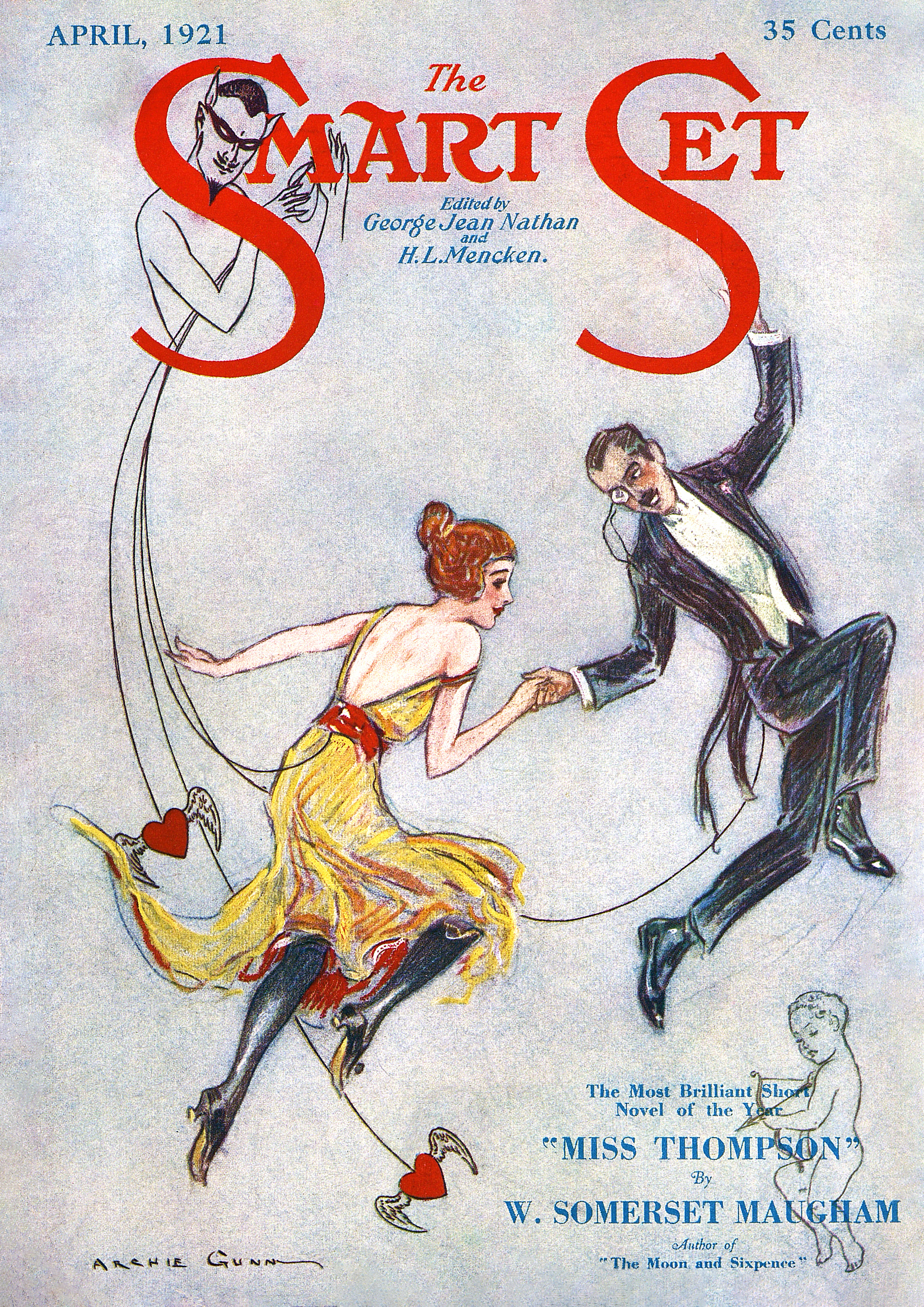 Front cover of The Smart Set magazine for April 1921 Type at lower right promotes the short story "Miss Thompson" by William Somerset Maugham